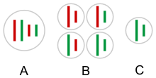 Gametes of a hybridogenetic hybrid contain the genome of one parental species (C), instead of all possible combinations of both parental (red and green) chromosomes (B). A - somatic cell.